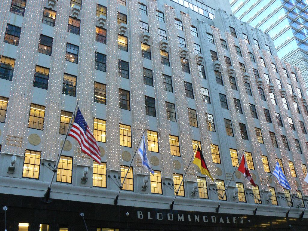 Stammhaus Bloomingdale's in New York City